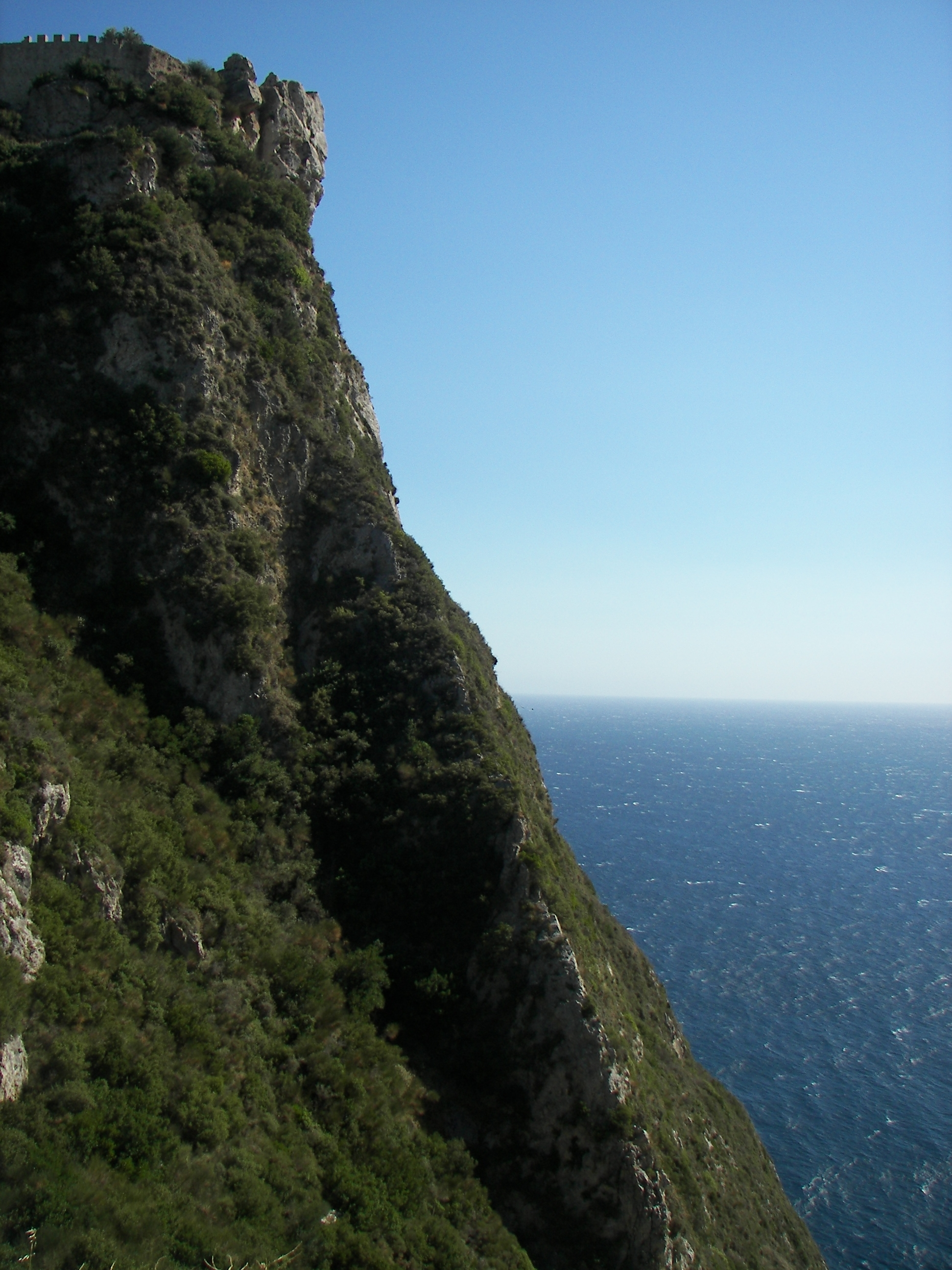 Angelokastro on Korfu.